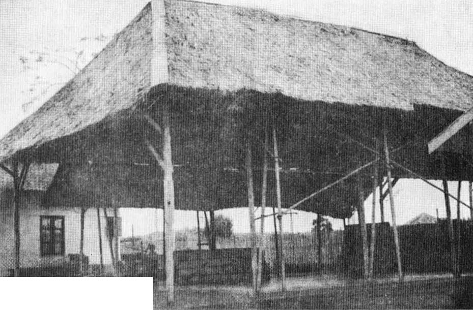 Persari Studio (1950)